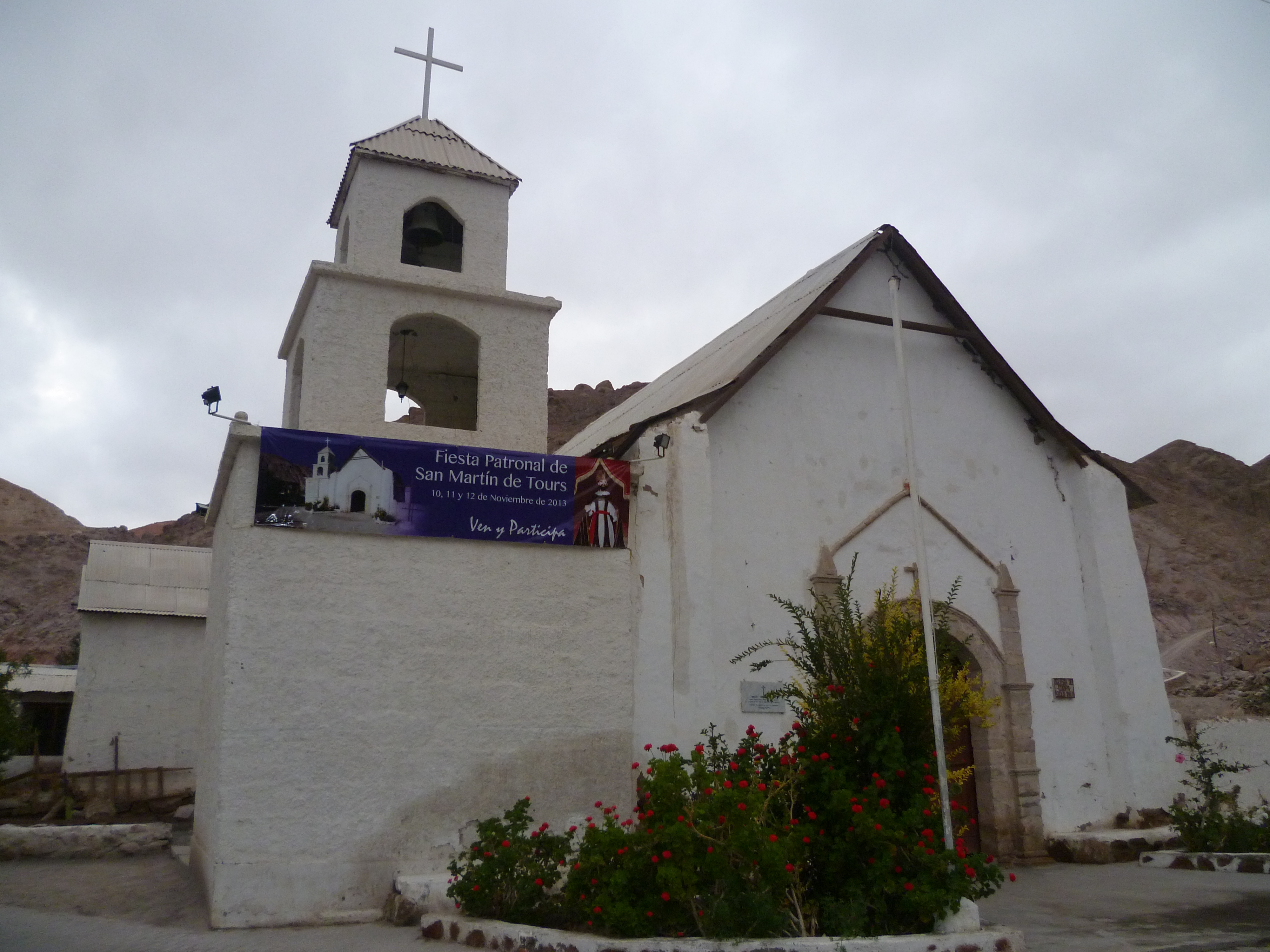 Iglesia de Codpa